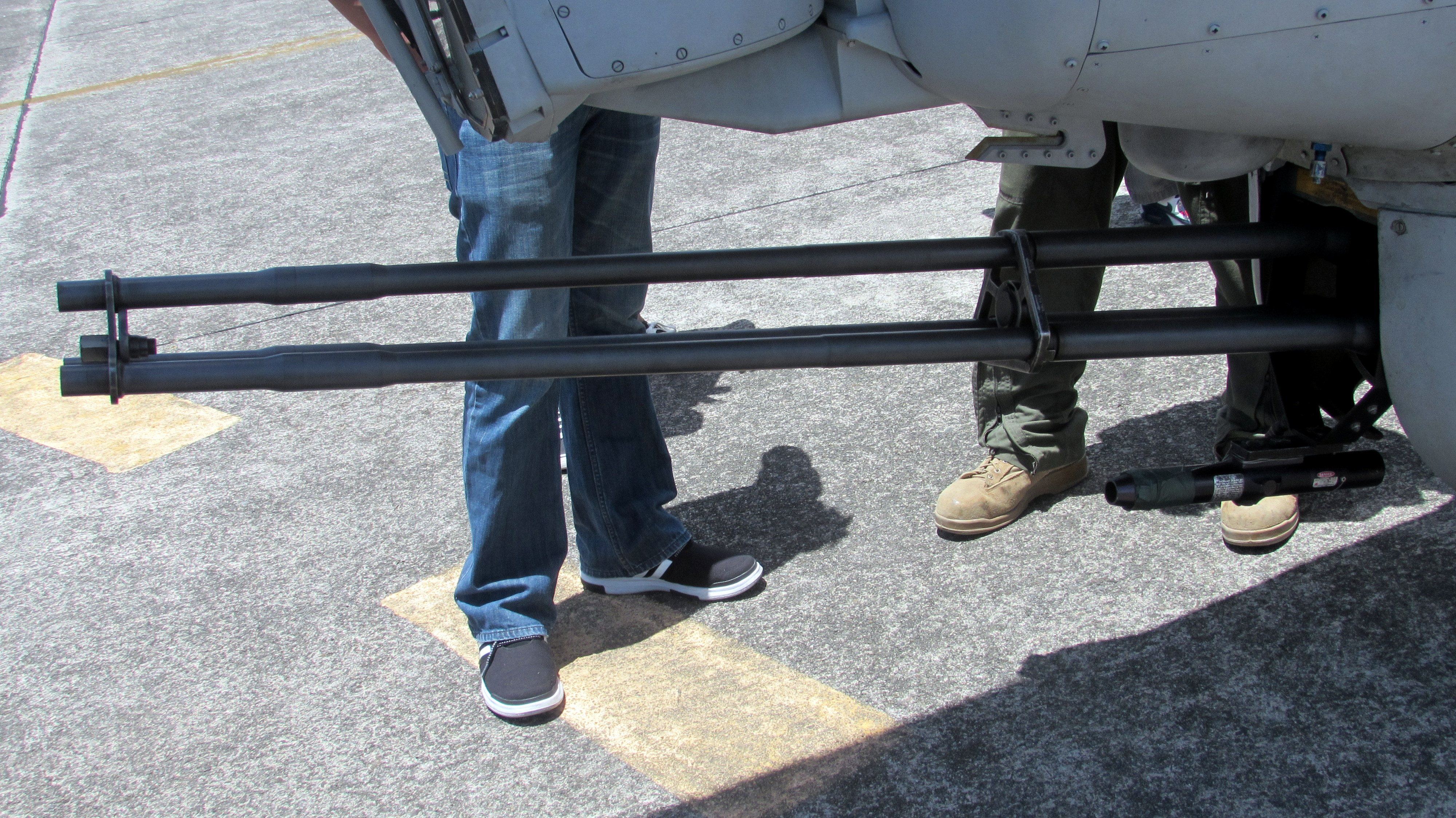 The M197 20 mm Gatling Gun of an AH-1 Cobra Helicopter of the United States Marine Corps (USMC). Photo taken during the Static Aircraft Display Day of the Balikatan 2016 Exercise.